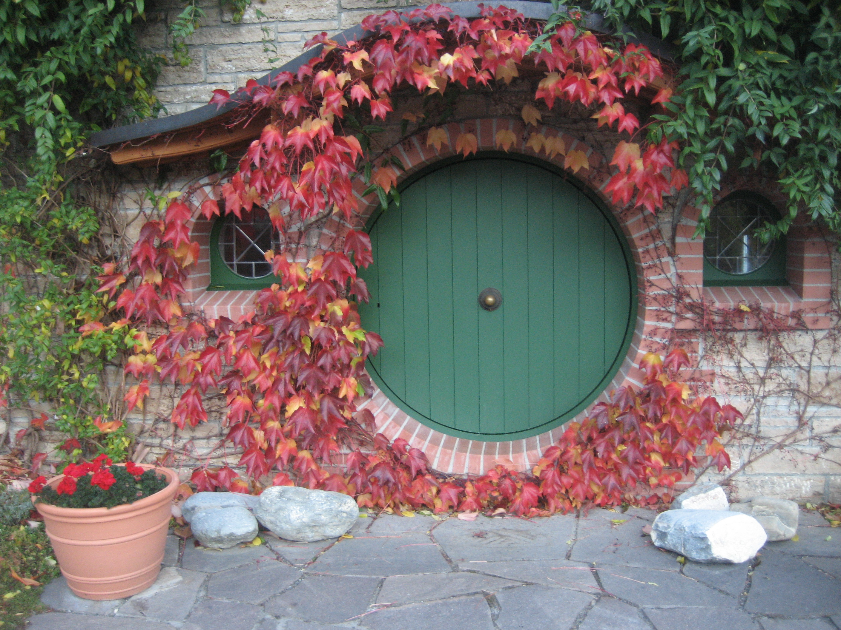 The entrance of Greisinger Museum in autumn